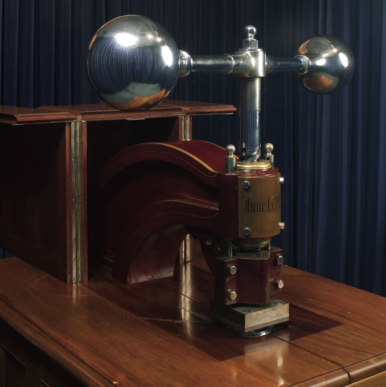 The press and cabinet of the Great Seal of the United States. It was made in 1903.